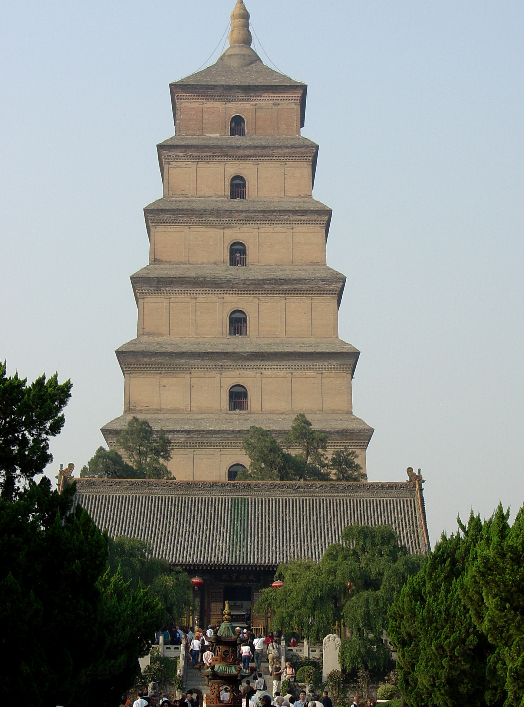 Great Wild Goose Pagoda (Dayan Ta). Xi'an This Tang-dynasty pagoda was built in 652 AD by emperor Gaozong to house the sutras (Buddhist scriptures) that monk Xuanzang had brought back from India. The pagoda is 64m (210 ft) tall; it consists of a brick exterior and a wooden interior. Gaozong's original building was five stories high, made of rammed-earth walls and a stone exterior; this collapsed and was rebuilt in 701-704 by Empress Wu Zetian, who added five more stories. In 1556 a massive earthquake damaged the building and reduced it to the present seven stories. The last major renovation was in 1964.